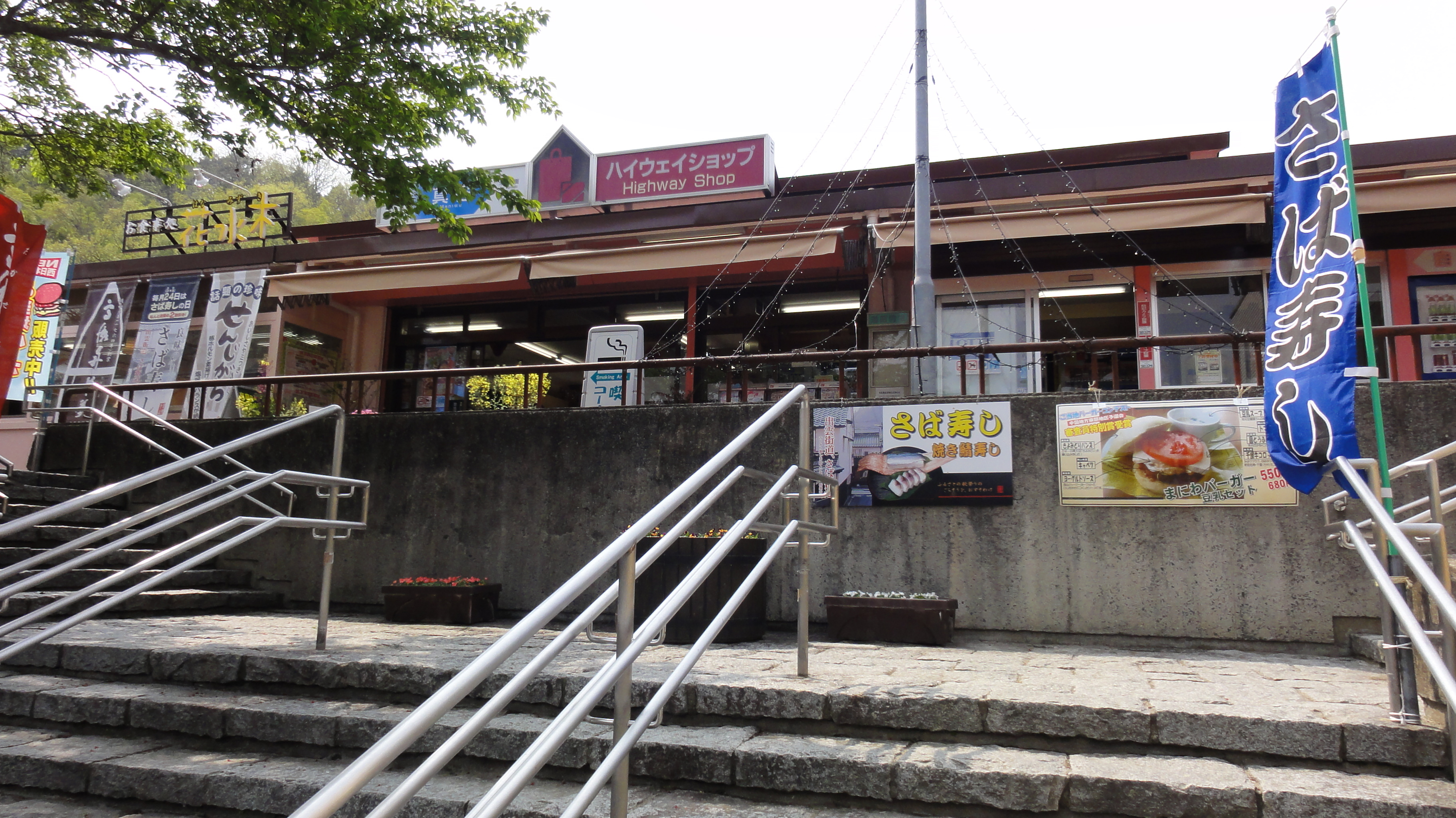 Maniwa Parking Area,Okayama prefecture,Japan